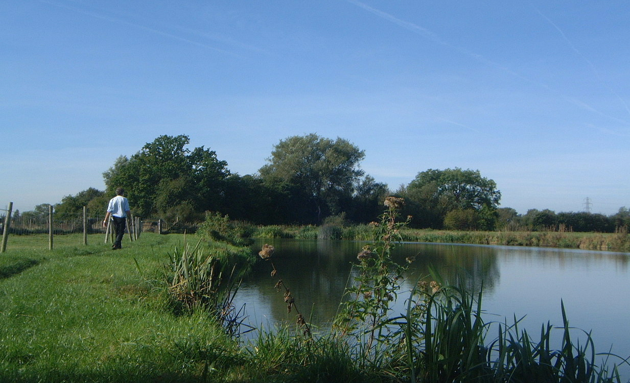 my image